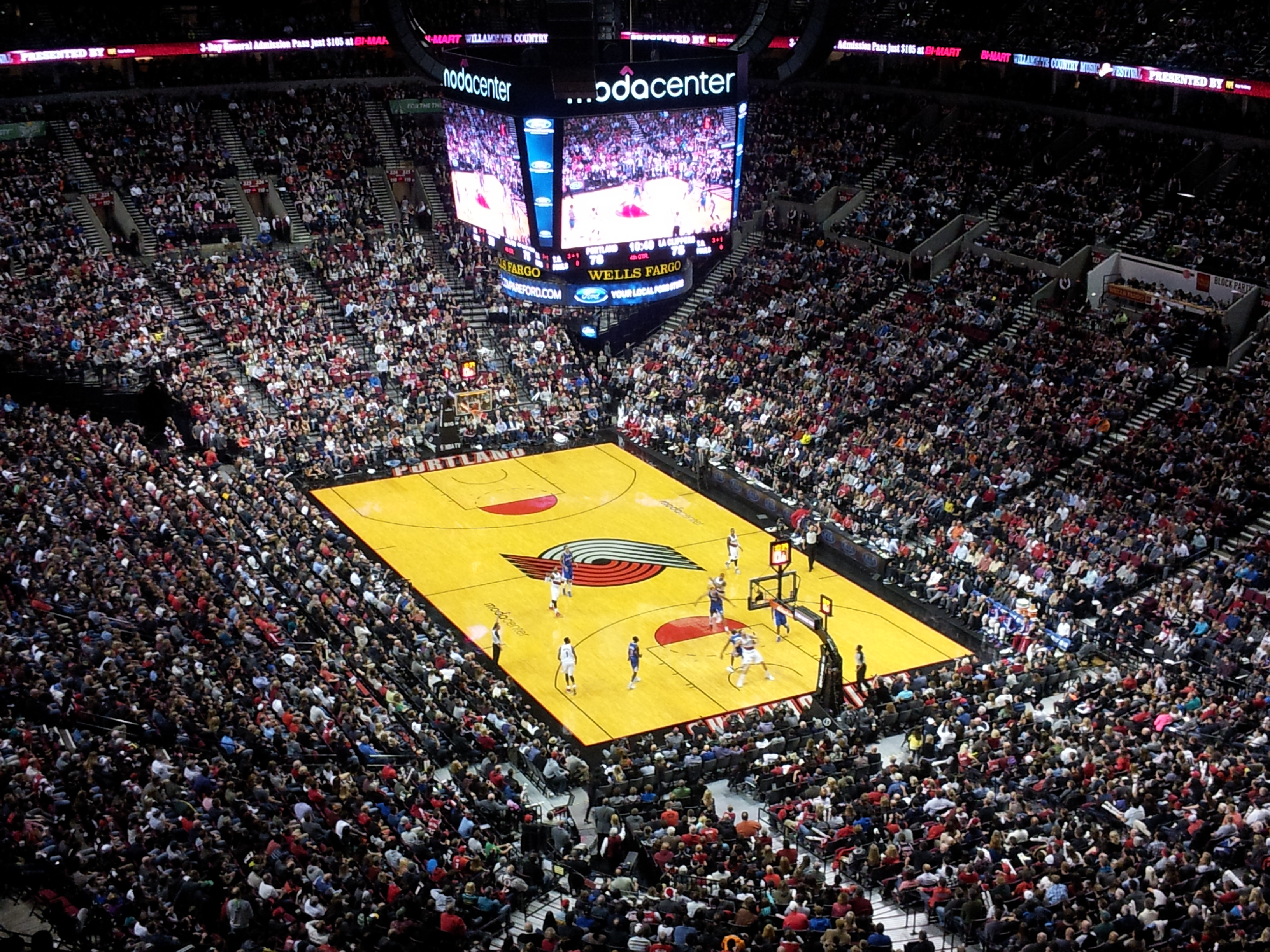 Portland Trail Blazers, Dec. 26, 2013